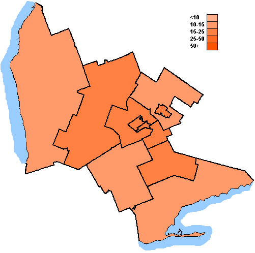 Map made by uploader (User:Earl Andrew); see [1] (question about source) and [2] (response).